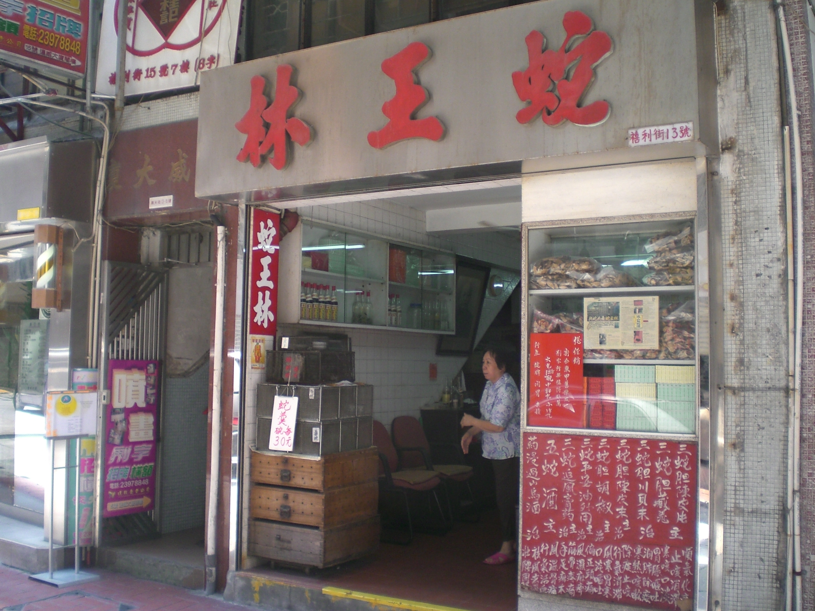 禧利街, 中西區, 上環, A snake shop, Hillier Street, Sheung Wan, Hong Kong